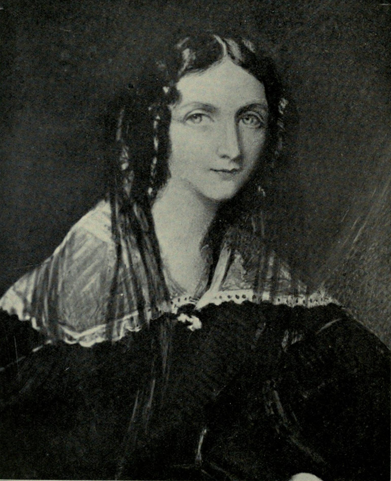 Lady Paget